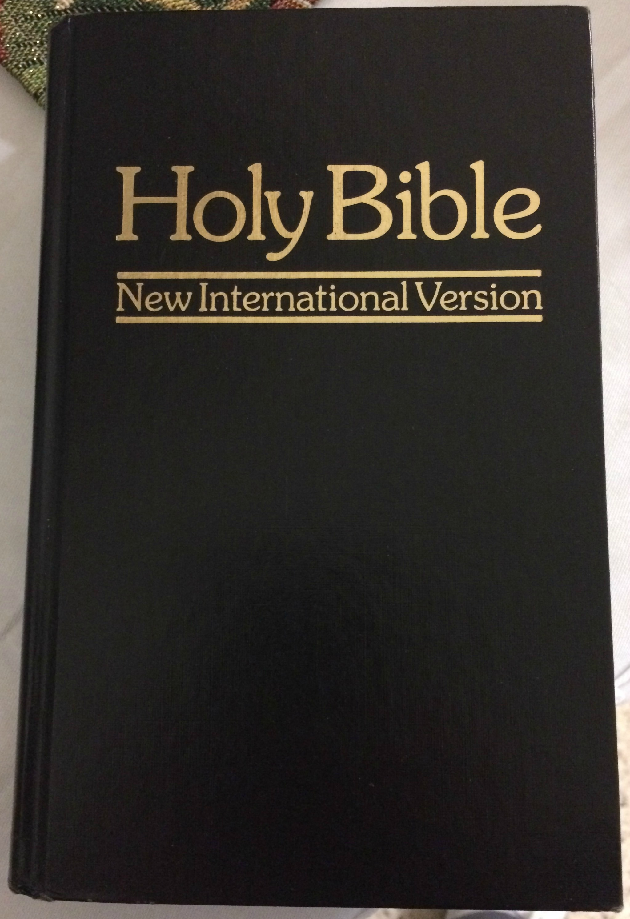 An New International Version Bible. This Bible was found Cherry Point Baptist Church in Havelock, North Carolina. The photo was taken on an iPhone 5s; the brightness and color have been cleaned up with Microsoft Office picture manager. The cover consists of the title and two lines. There is no other unique translation or publisher logo or symbol.